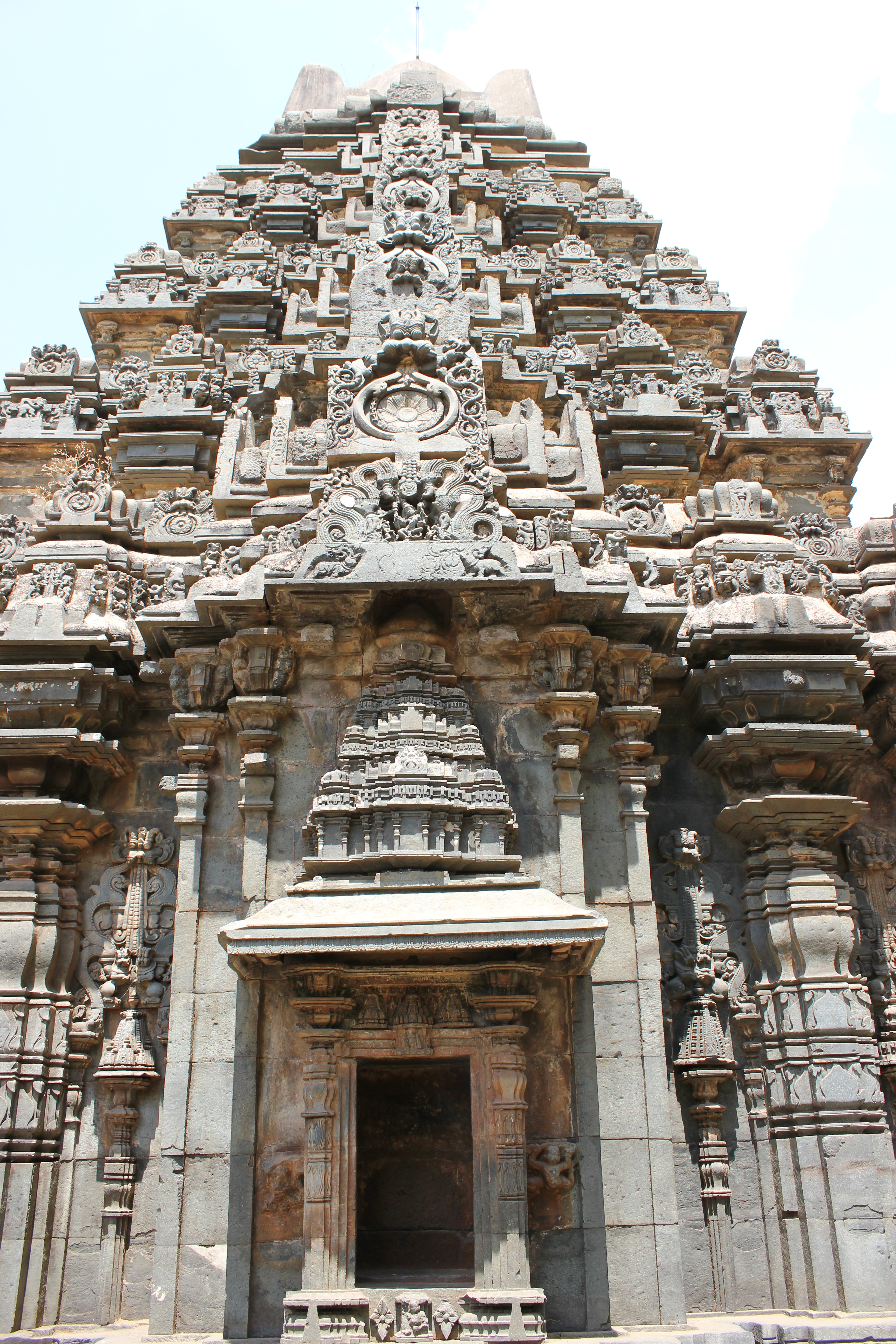 This photograph was taken by me at the Tarakeshwara temple, Hangal, Haveri district of Karnataka state, India. The temple was built slightly prior to 1180 AD under Kadamba dynasty patronage in the Kalyani (western) Chalukyan architectural style.